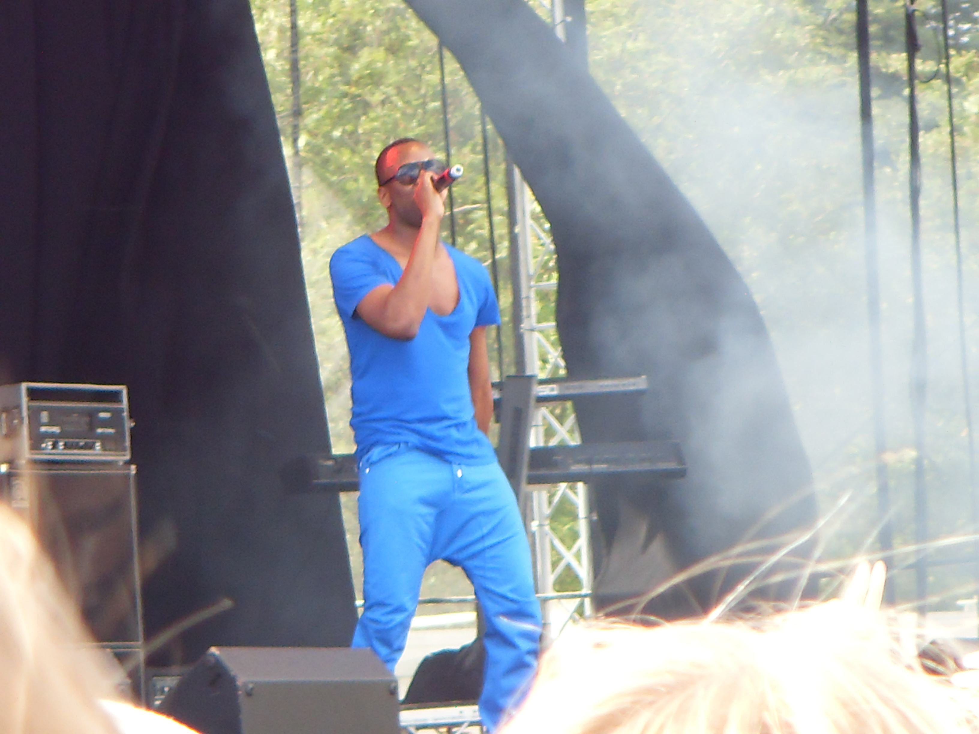 Starboy Nathan at 2011 Live in Hanley Park, Stoke-on-Trent.